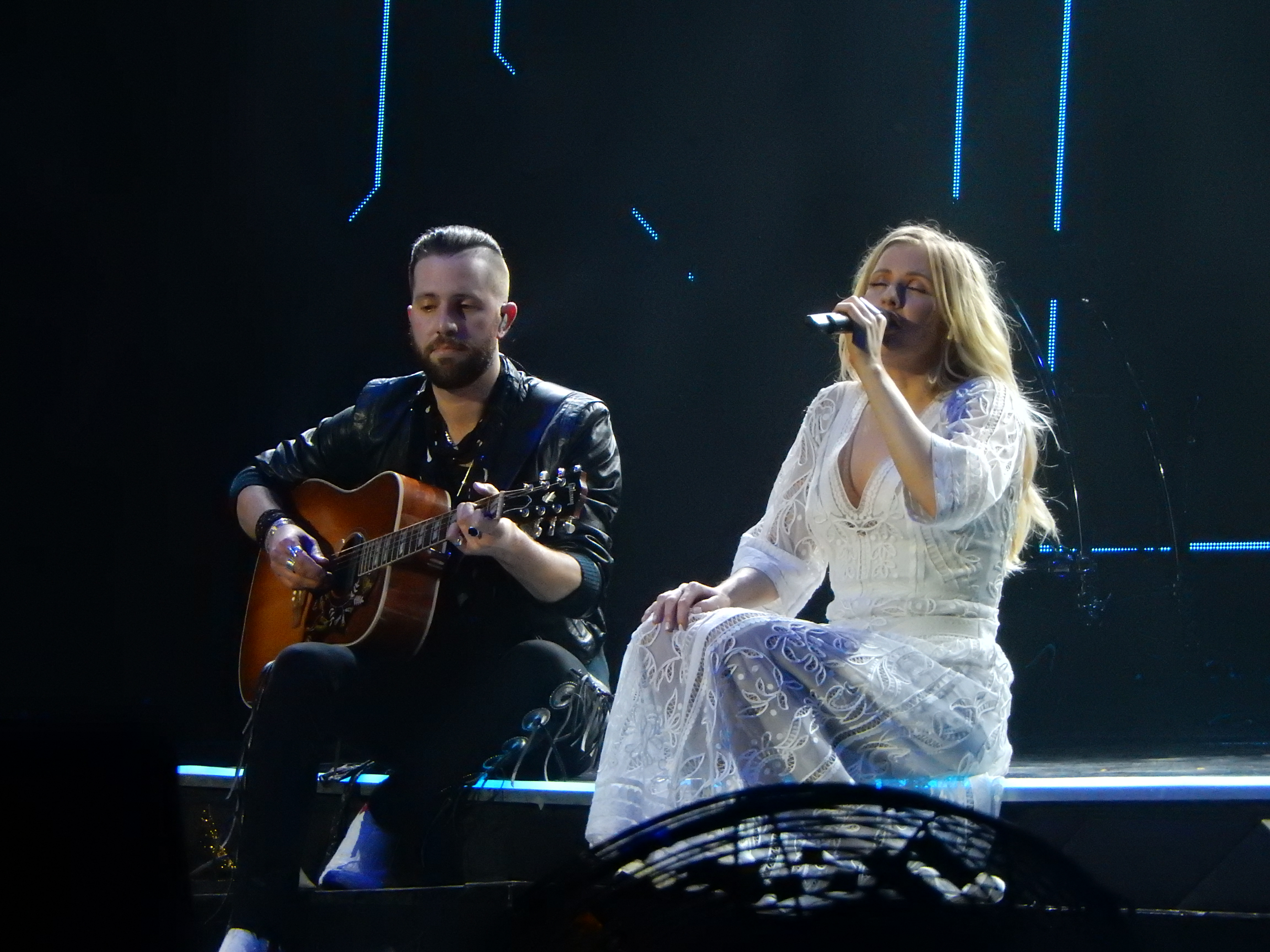 Ellie Goulding, O2 Arena, London